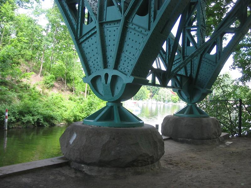 The Stößenseebrücke is a street-bridge of the Heerstraße over the lake Stößensee (river Havel back water) and the Havelchaussee in Berlin-Wilhelmstadt, Borough Spandau, at the border to Westend, Borough Charlottenburg-Wilmersdorf. It was built in 1908/1909 according to the plans of the construction engineer Karl Bernhard.